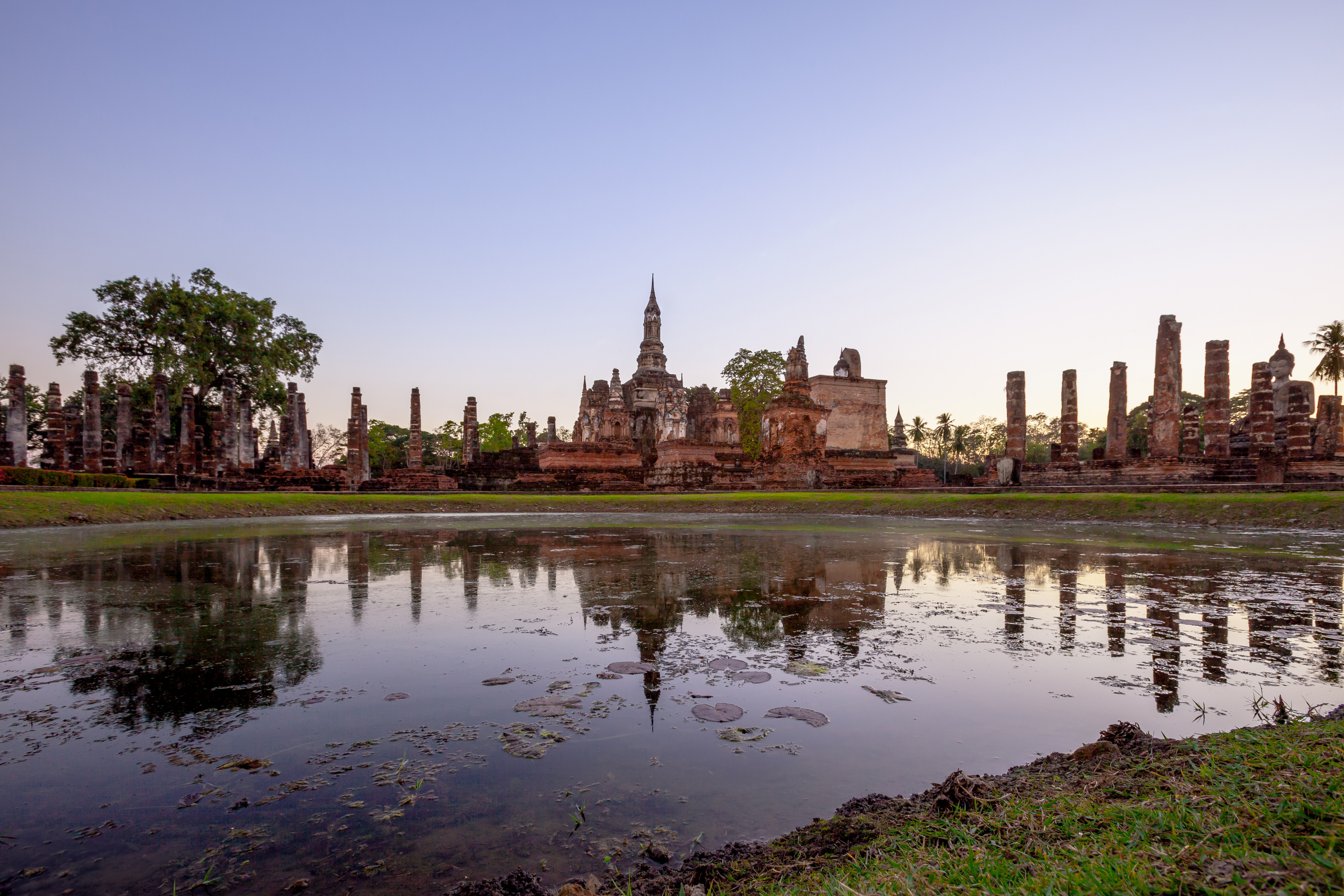 Wat Mahathat, Mueang Sukhothai District, Sukhothai Province, northern Thailand.